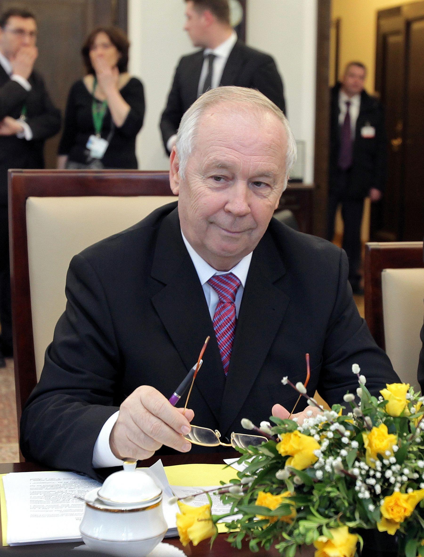 Chairman of the Verkhovna Rada of Ukraine Volodymyr Rybak in the Polish Senate